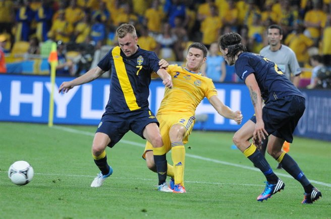 UEFA Euro 2012 match between Ukraine and Sweden that took place in Kiev. Final result was 2:1 (2xShevchenko - Ibrahimović)